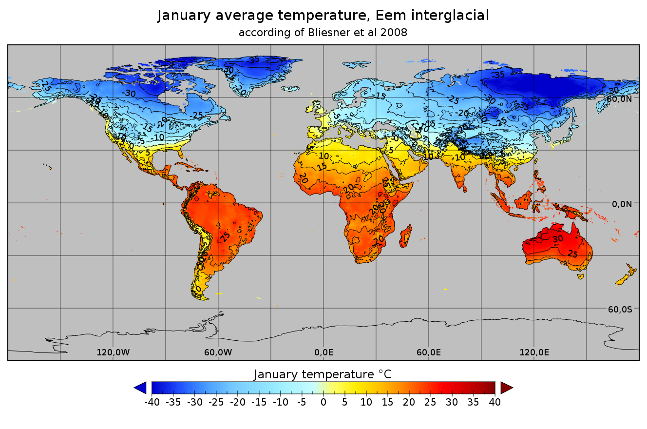 January average temperature at Eemian interglacial, ca 120-140 kya BP.